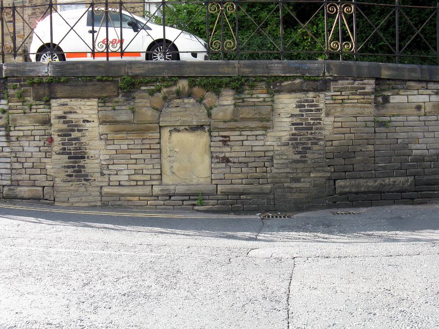 This is the blocked up urinal and lock up topped by what is known locally as Monkey Bridge in Eccleshill, Bradford, W. Yorks.